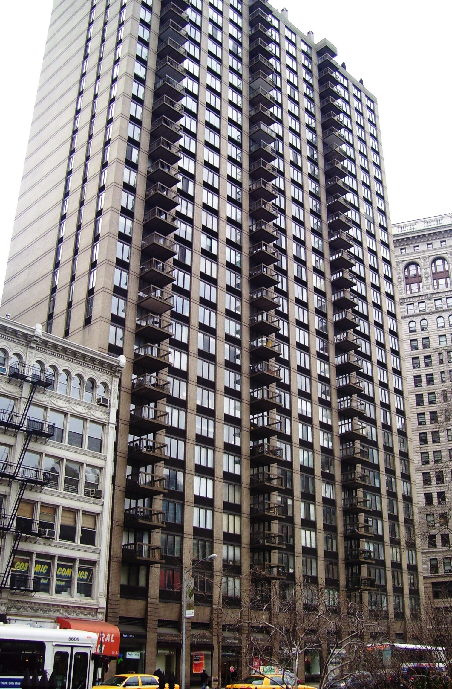 Madison Green is the 31-story, 434-unit condominium apartment building located on the corner of East 23rd Street and Broadway, with its entrance at 5 East 22nd Street. The site was the location of a 5-alarm firm in October 1966 in which 12 firefighters died, the FDNY's worst loss of life prior to 9-11. The property was owned by the Metropolitan Life Insurance Company, which failed to find a buyer for a decade. In the mid-1970s, when the neighborhood, now known as the Flatiron District, was at its nadir, it was announced that an apartment building would be built on the site, but the building was not actually constructed until 1982, signalling a change in the area's fortunes. The building was designed by Philip Birnbaum, with interior public spaces designed by David Kenneth Spector. (Sources: Alexiou Flatiron (2010), [1]) A bit of the Flatiron Building can be seen on the right.